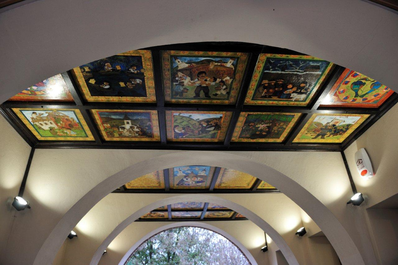 Zoltan Joo (1956-):Painted coffered ceiling (public art) about Veresegyhaz, Hungary